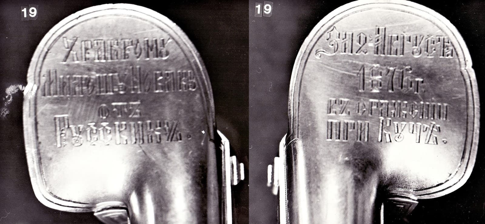 Sabre of Novak Milošev